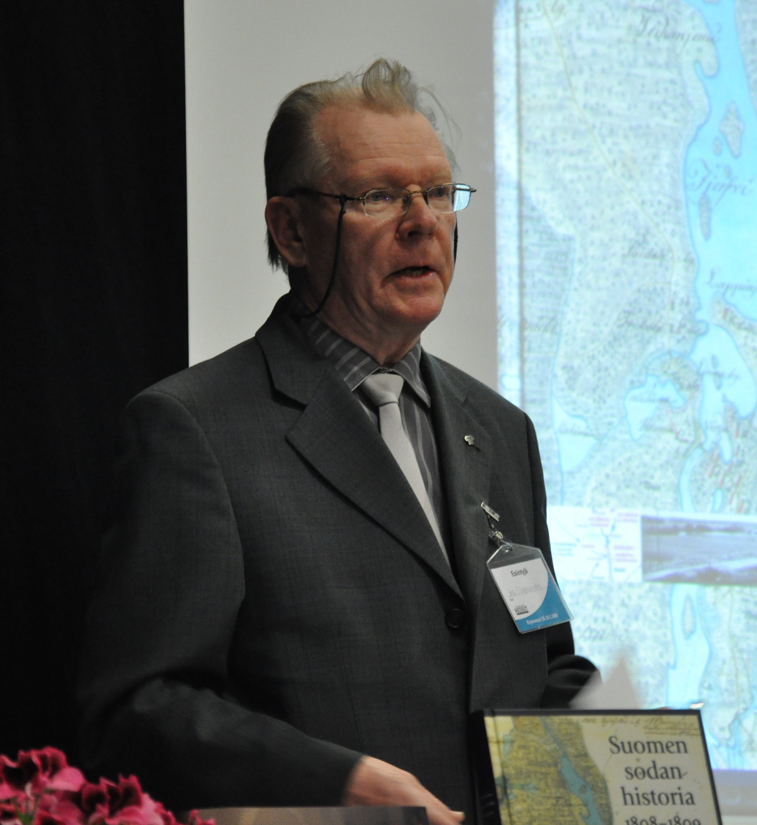 Finnish historian Jussi T. Lappalainen speaking at the Jyväskylä Book Fair 2009.